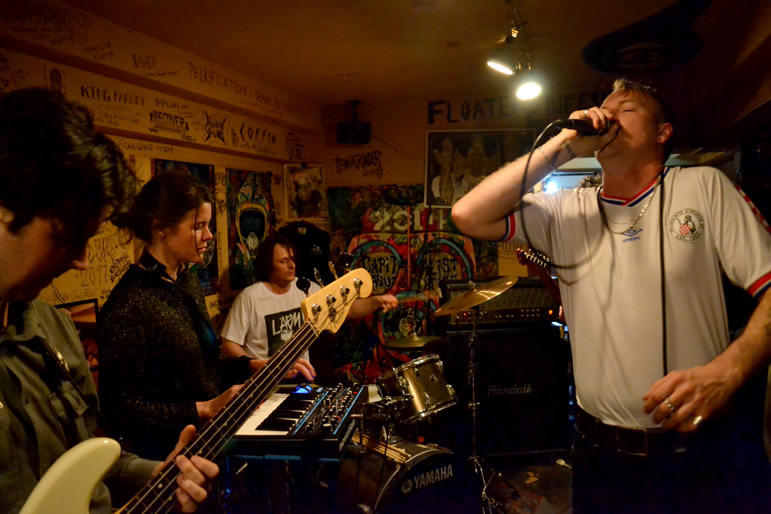 Total Control 2019.12.5 el puente, Yokohama, Japan